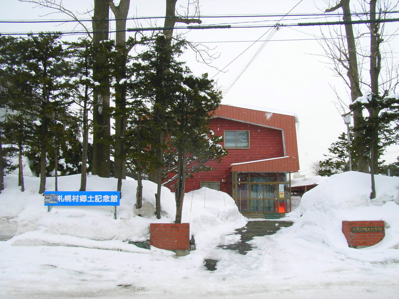 Sapporo Village Memorial Musium. Sapporo, Hokkaido prefecture, Japan.